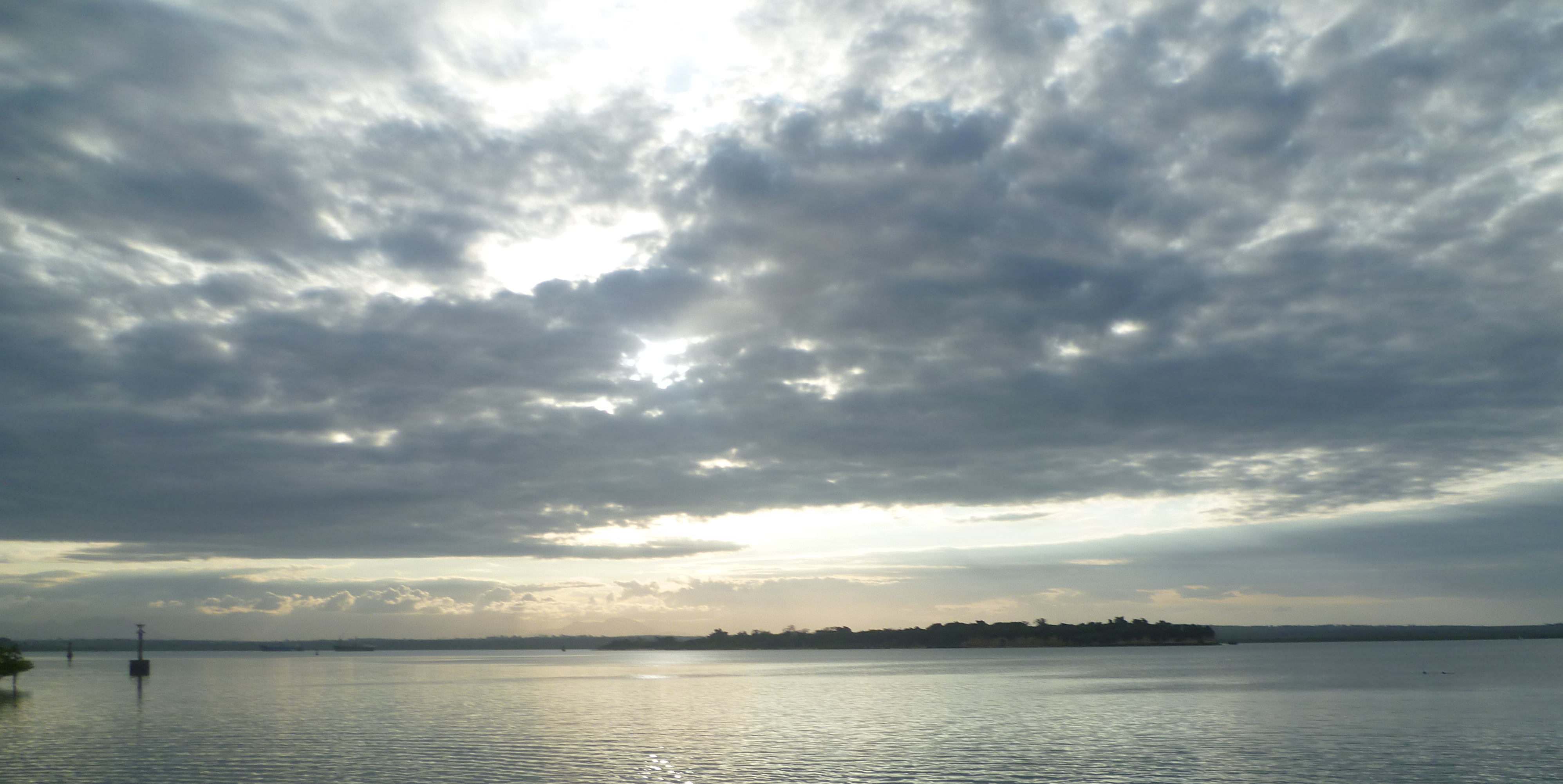 Tanga Bay